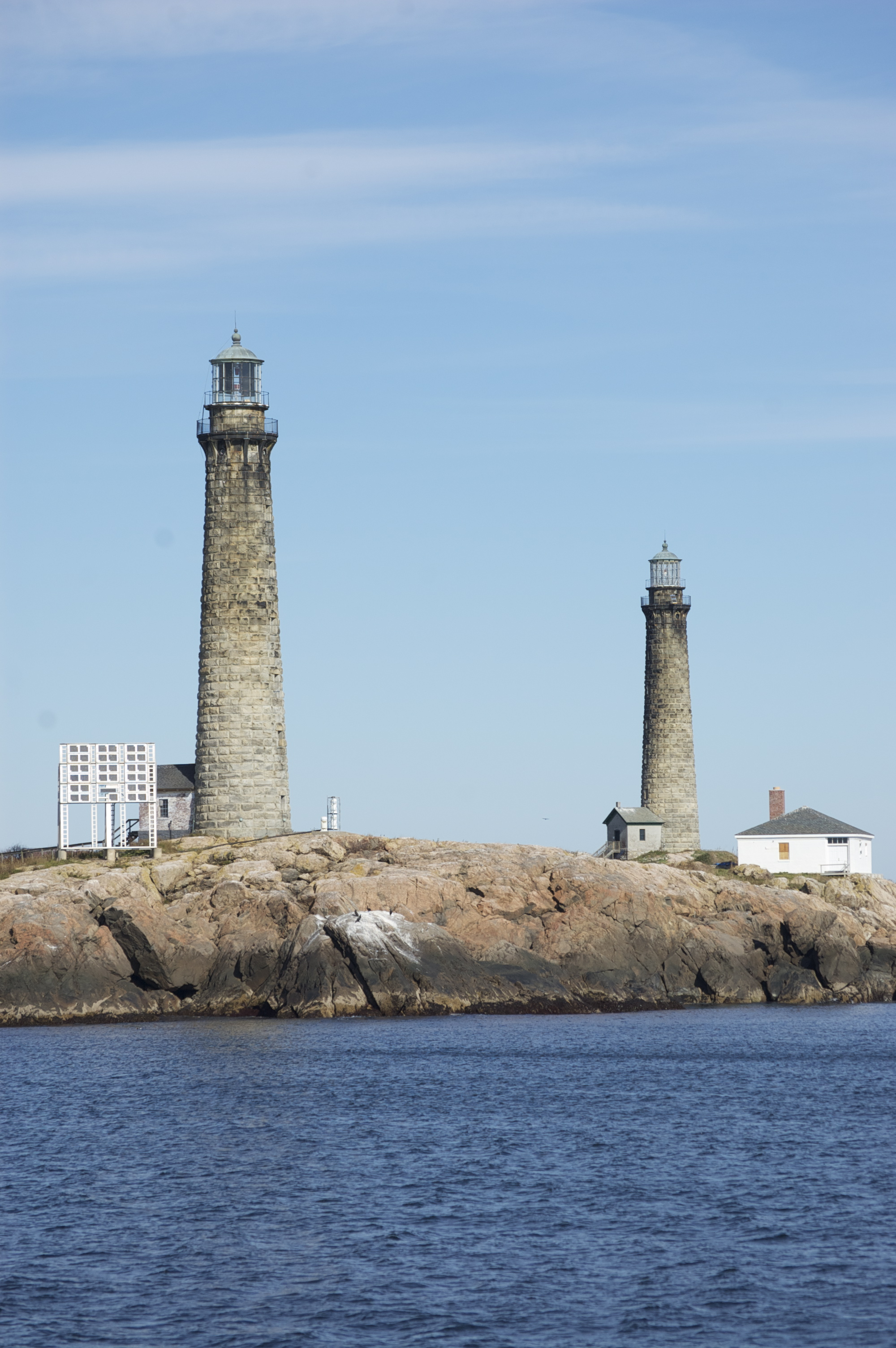 The twin lighthouse system on Thacher Island off Cape Ann, Massachusetts. The south lighthouse is on the left.